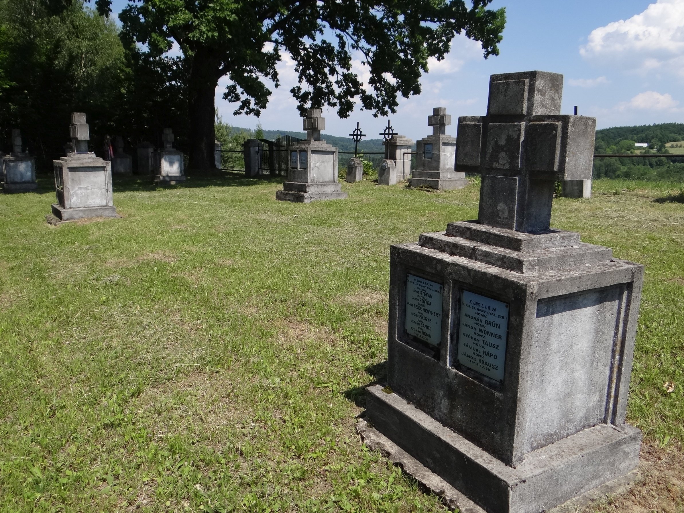 World War I Cemetery nr 163 in Tuchów